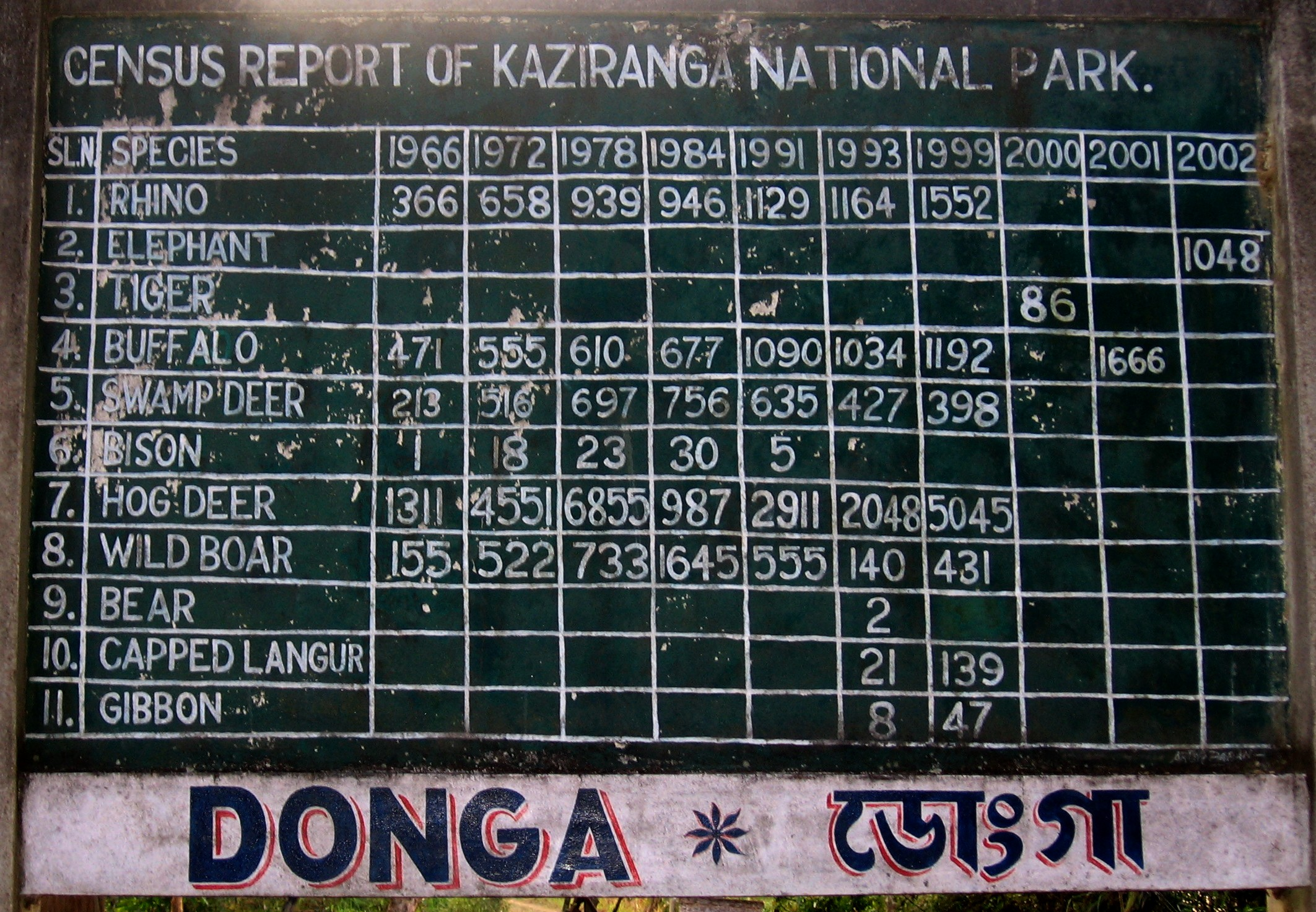 Information board in the Donga range of Kaziranga National Park. This board is located at one of the watch towers overlooking the swamp. It is also a terminus for the Elephant rides. Photo taken with a Canon Powershot A520